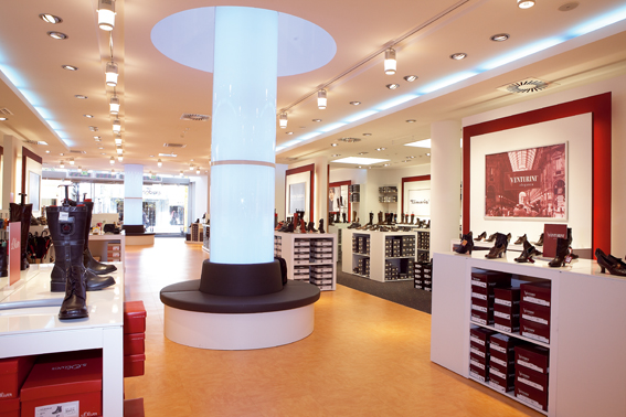 Venturini